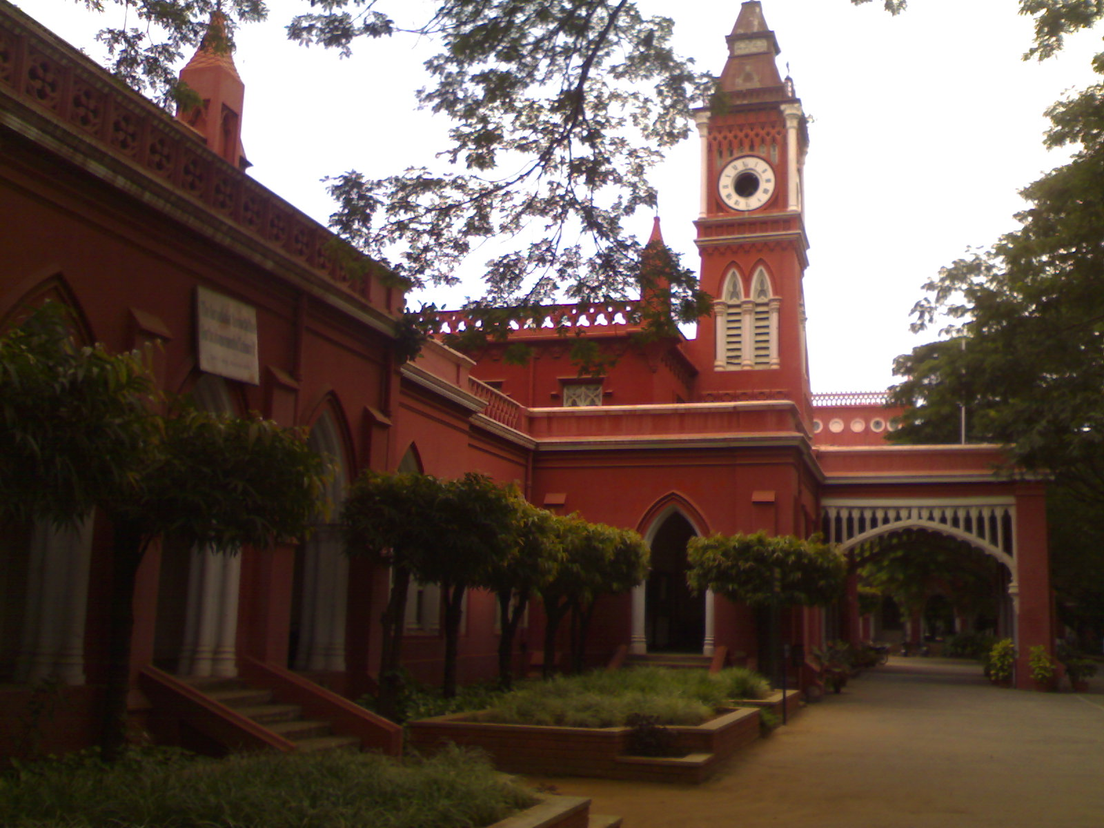 The view of the University